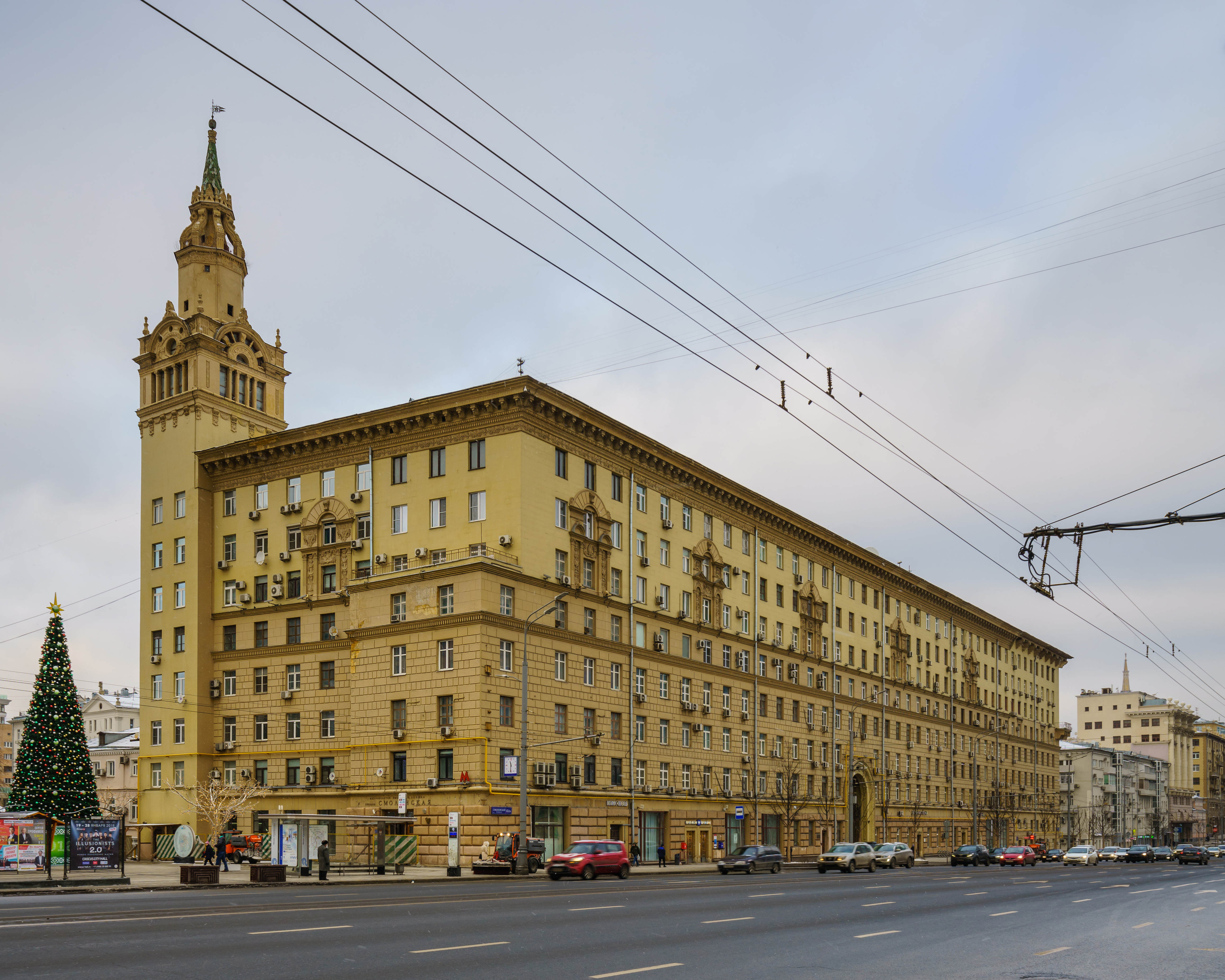 Stalinist apartment building at Smolenskaya Square, Moscow